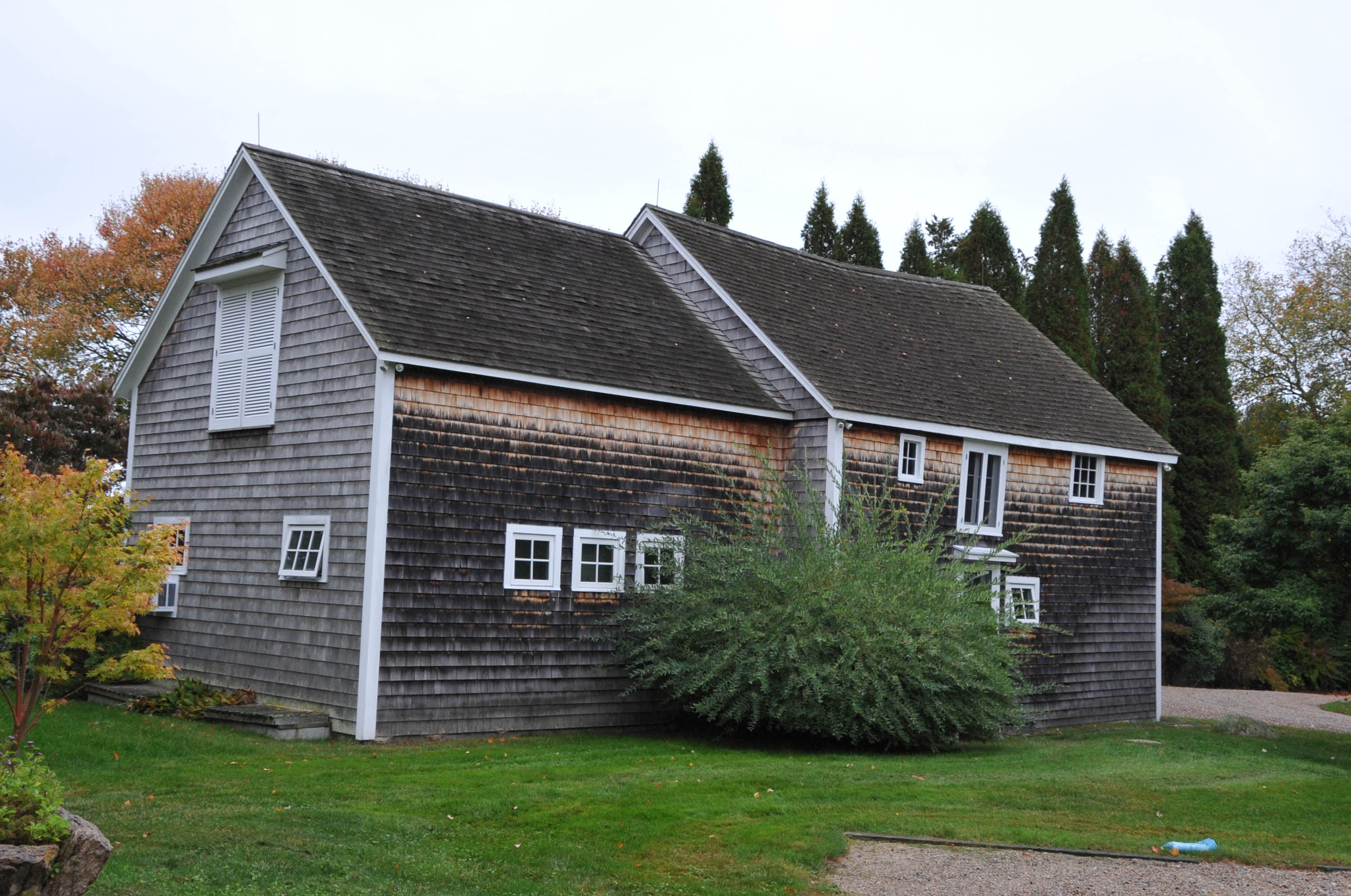 THE HORSE BARN AT THE WILLIAM GORTON FARM, DATES FROM LATE 18TH TO 19TH CENTURY. WILLIAM GORTON WAS A FARMER AND EXPORTED PRODUCTS TO THE WEST INDIES. LATER THE FARM BECAME A SUMMER COLONY AT BLACK POINT FOR NEW YORKERS